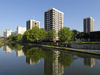 De Beauvoir Estate, London.